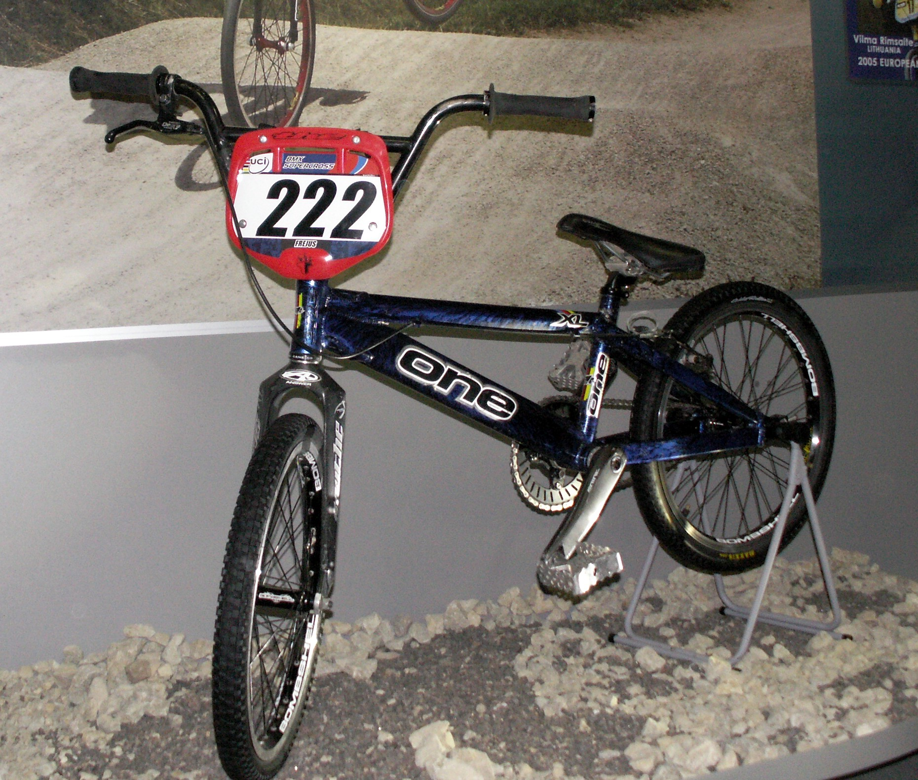 BMX bicycle of Vilma Rimšaitė in Šiauliai museum Aušra, Lithuania